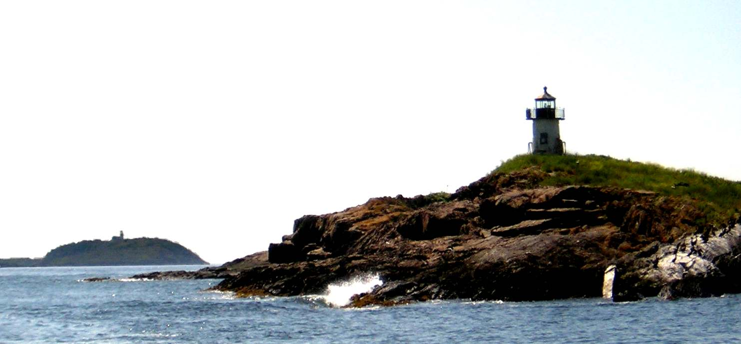 Pond Island Light, Mouth of the Kennebec River, Maine, USA with Seguin Island in background